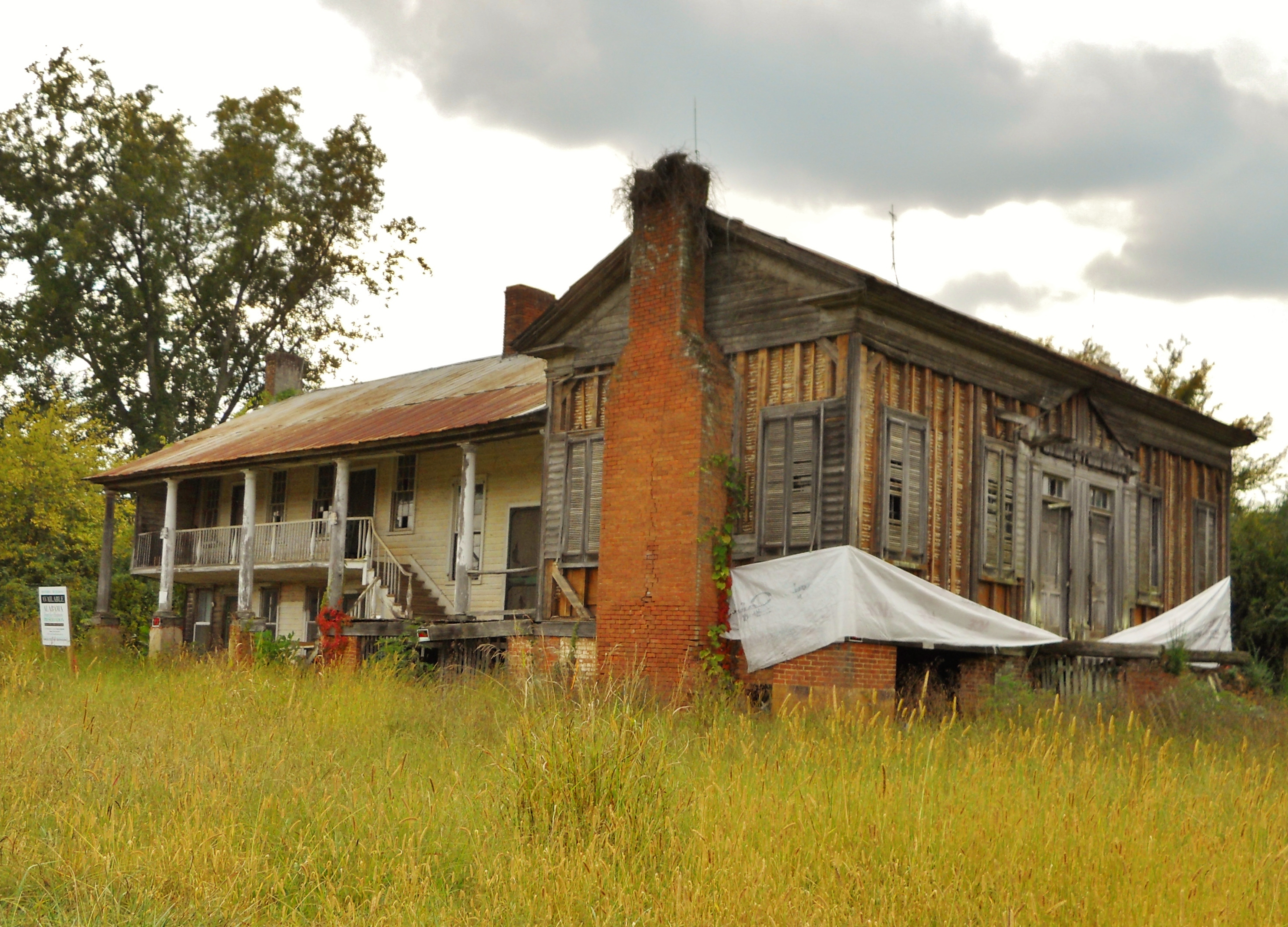 This is a photograph of the Jemison House Complex in Eastaboga, Alabama. The property was listed on the National Register of Historic Places in 1990.